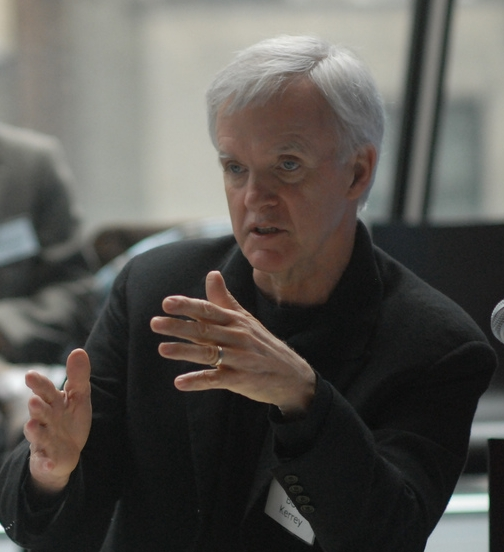 Bob Kerrey at a Union Square Sessions Event called "Hacking Education"